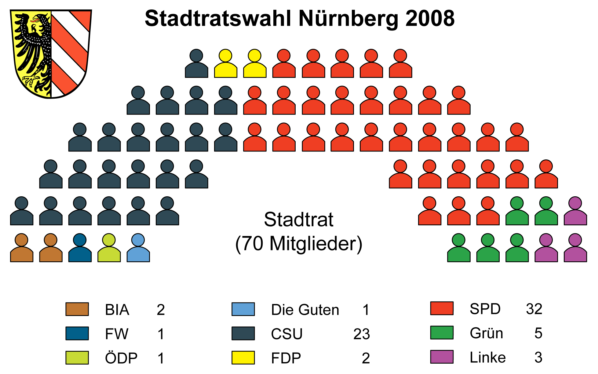 Results of the communal elections of Nuremberg 2008